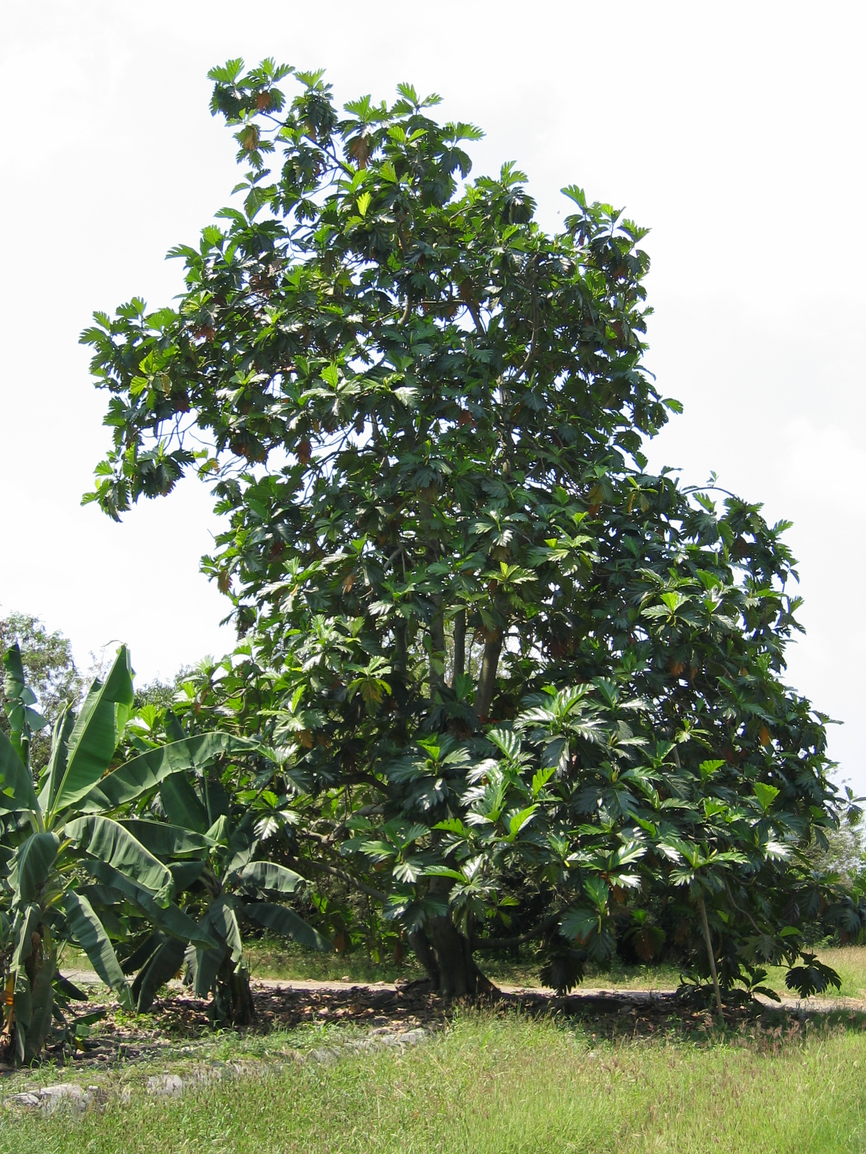 Breadfruit (Artocarpus altilis) is an introduced, yet widely distributed, species in tropical South America. Mostly used as an ornamental tree, the edible seeds are occasionally eaten.